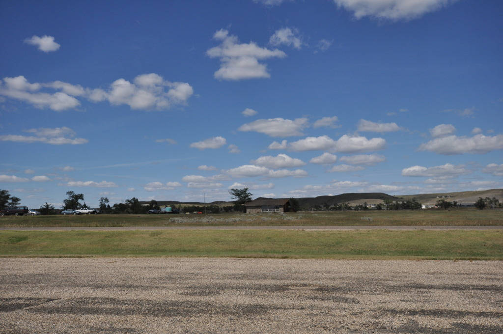 Old Fort Sully Site (39HU52), Pierre, South Dakota.